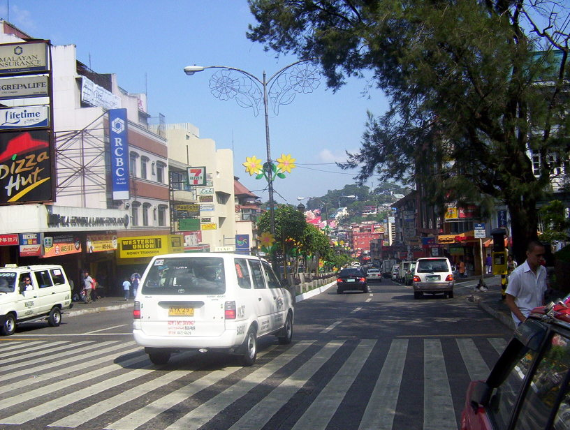 a traffic free Session Road , Baguio City.